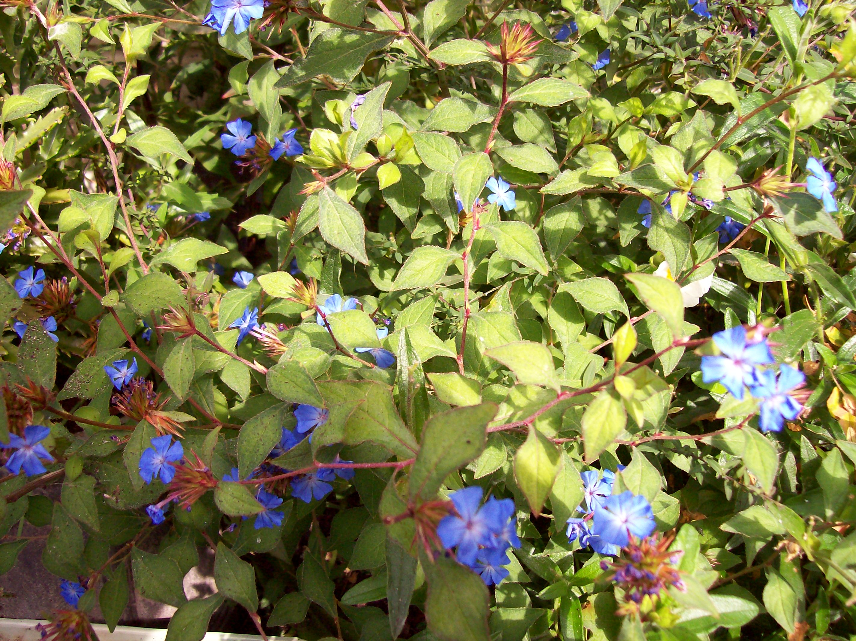 Ceratostigma griffithii